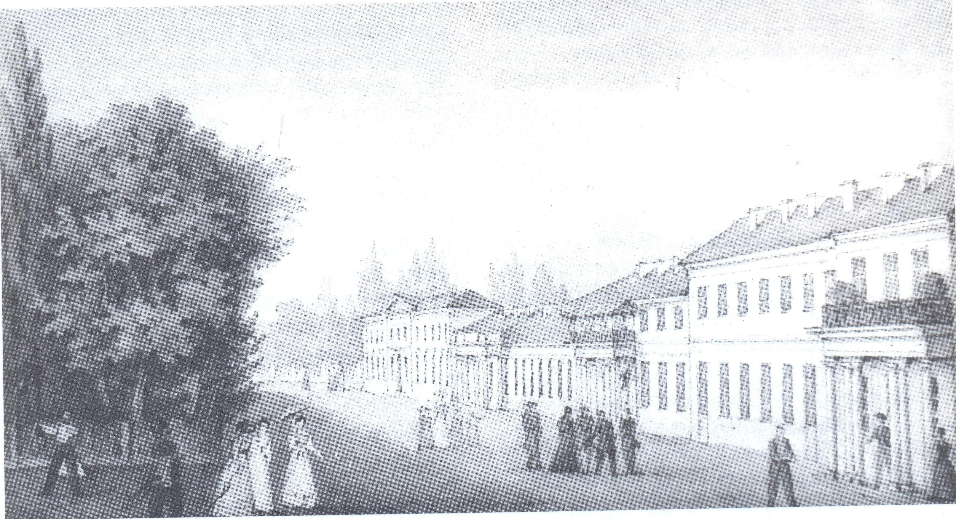 Palace Branickis in Lyuboml. Drawing of V.Rihter